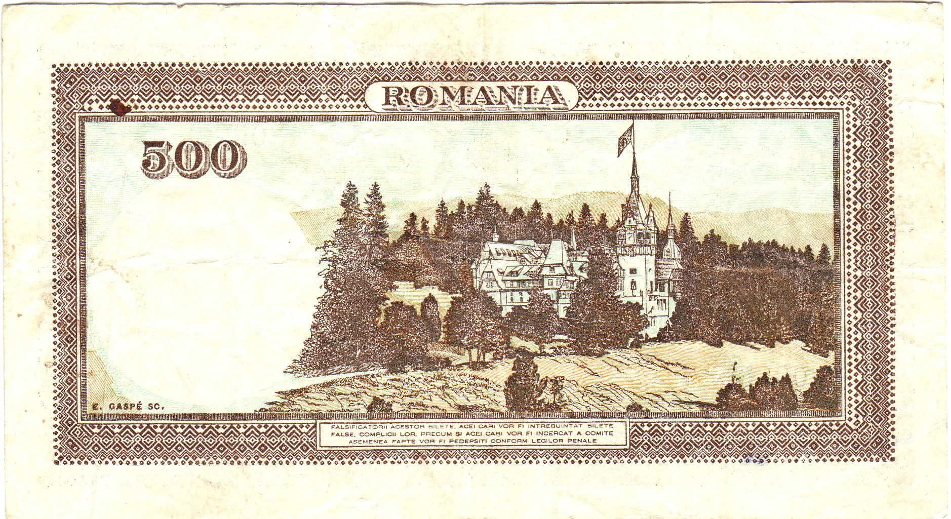 500 Romanian leu from 1942 - reverse